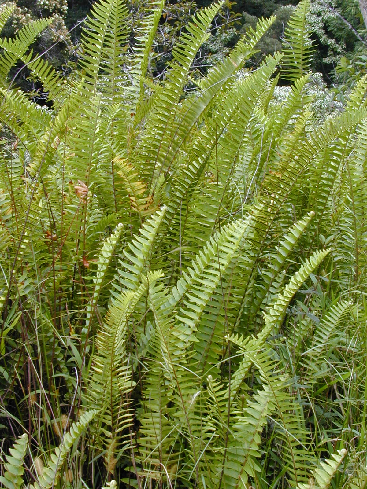 Nephrolepis multiflora (habit). Location: Maui, Wahinepee